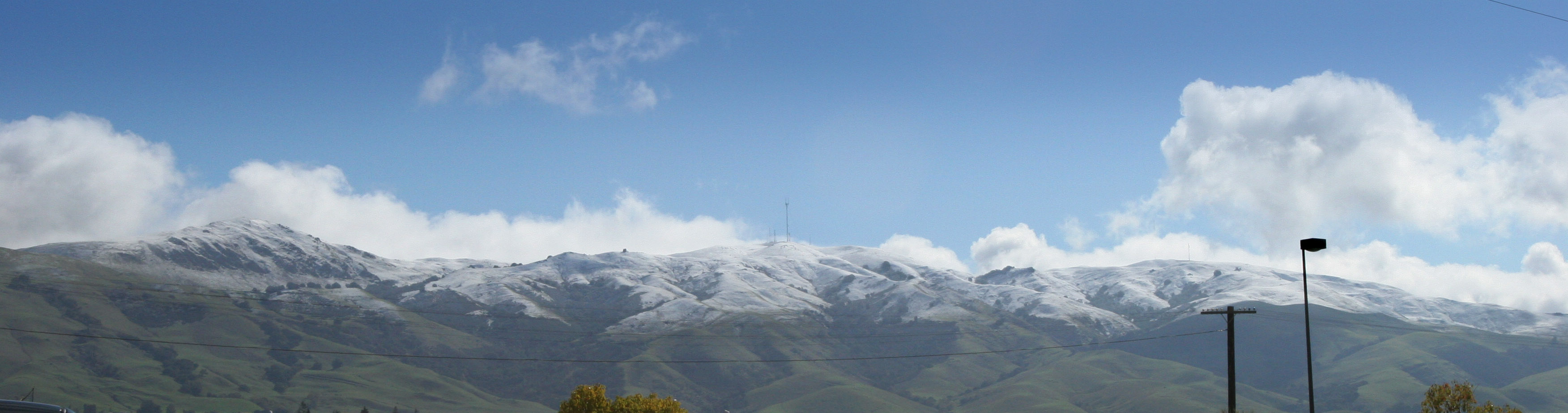 Mission Peak (left), Mount Allison, and Monument Peak, after a rare snow fall as seen from Southern Fremont, CA.